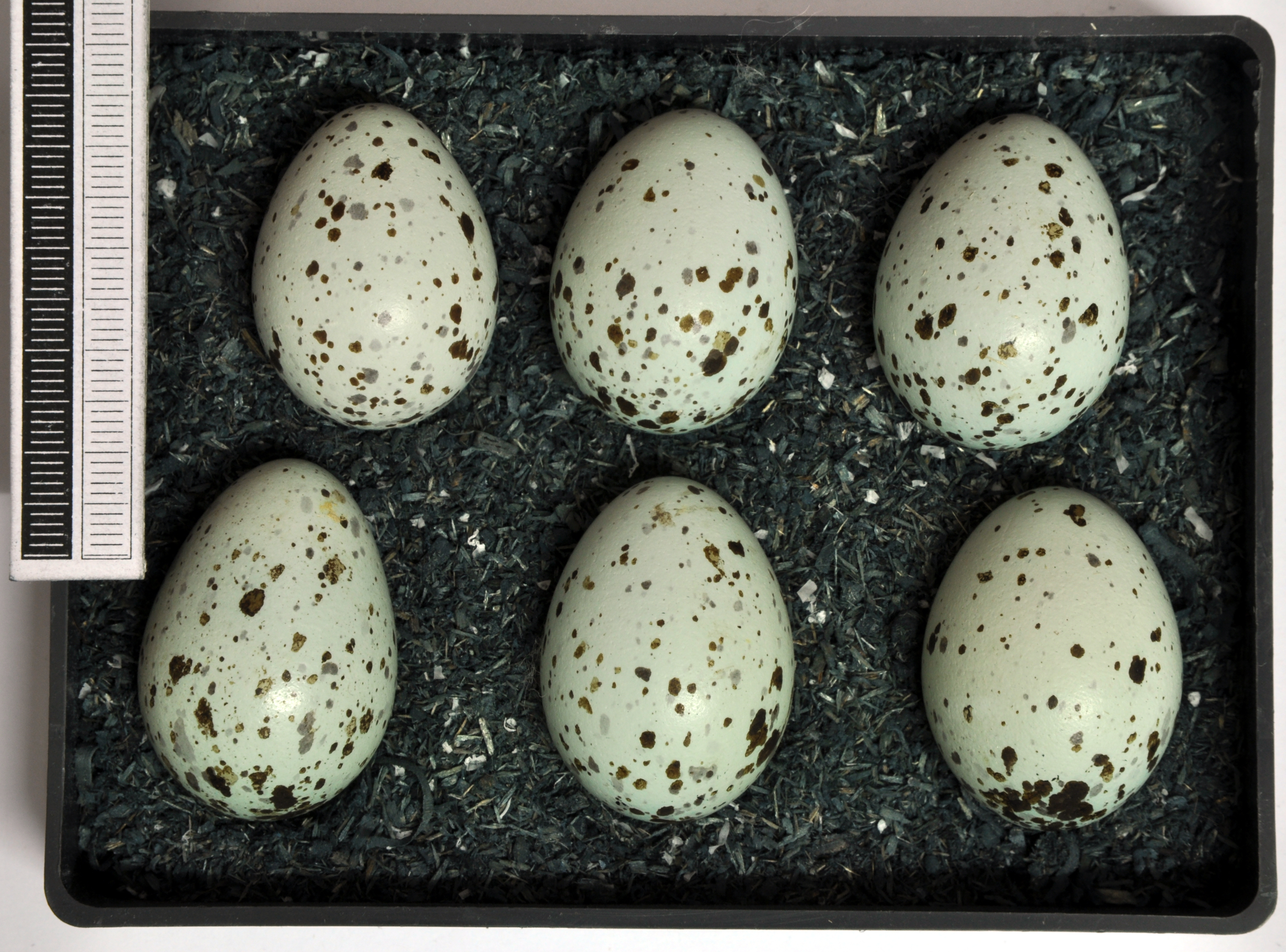 Western jackdaw Corvus monedula, egg, Coll. Museum Wiesbaden, Origin: Lake Neusiedl, Austria, 19.04.1973, leg. W. Abelmann